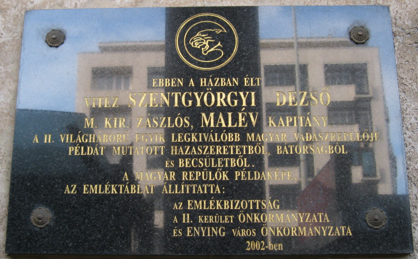 Dezső Szentgyörgyi commemorative plaque in Budapest District II, on the corner of Margit Boulevard No 47 and Keleti Károly Street No 2.